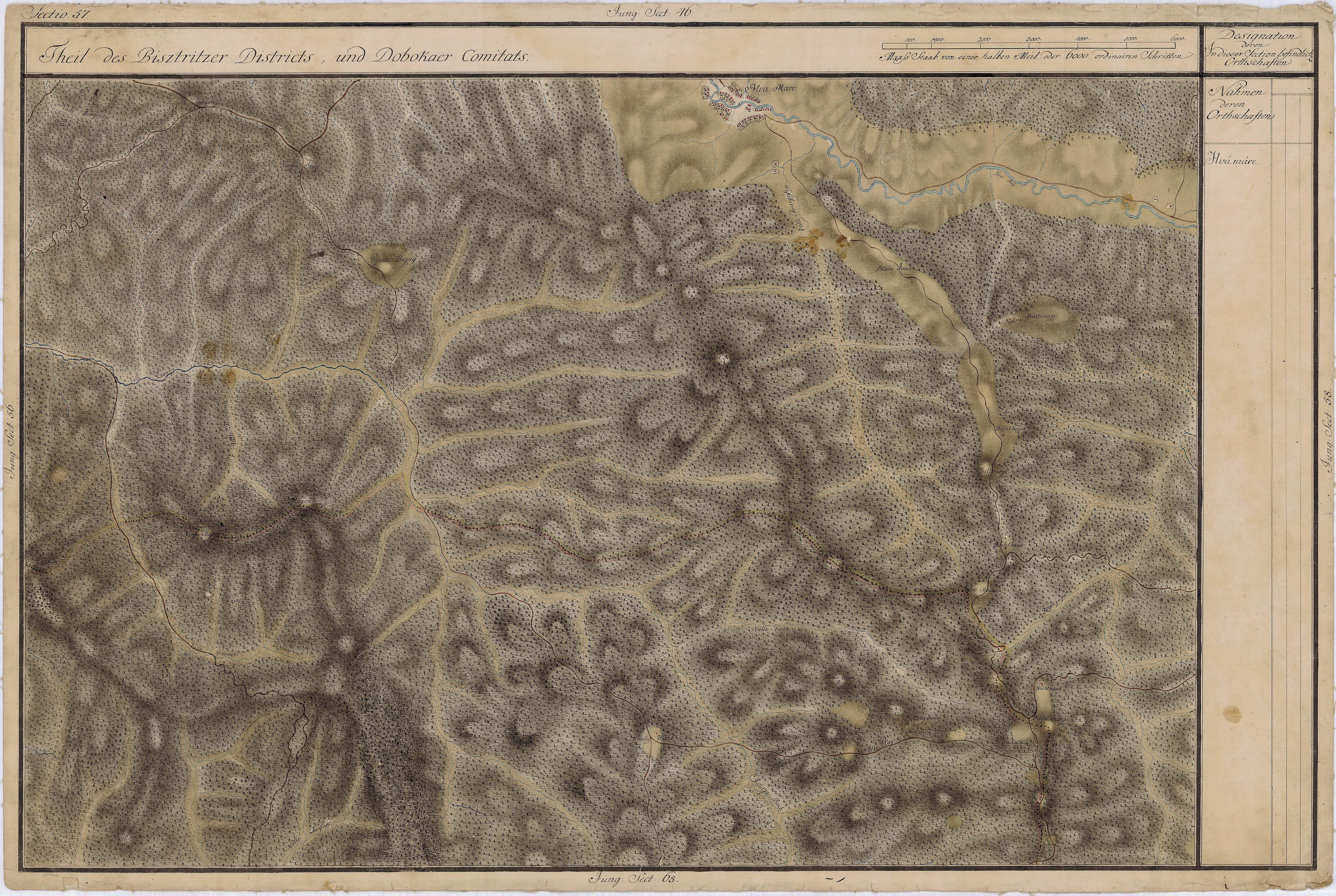 Grand Duchy of Transylvania, 1769-1773. Josephinische Landaufnahme pg.057